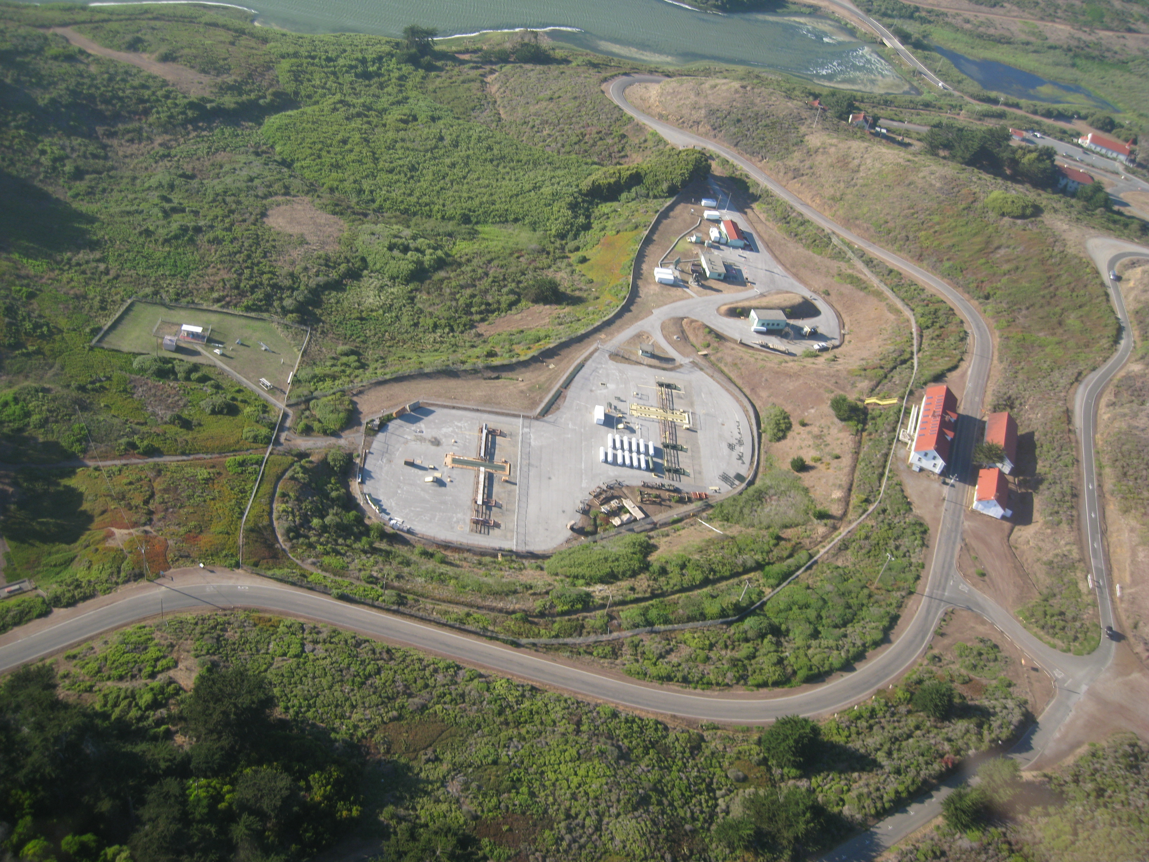 The Nike system was rapidly made obsolete, but sites such as this one in Marin are still around. There's another on Angel Island though I didn't get a good photo of it. There are plenty to be found, though.